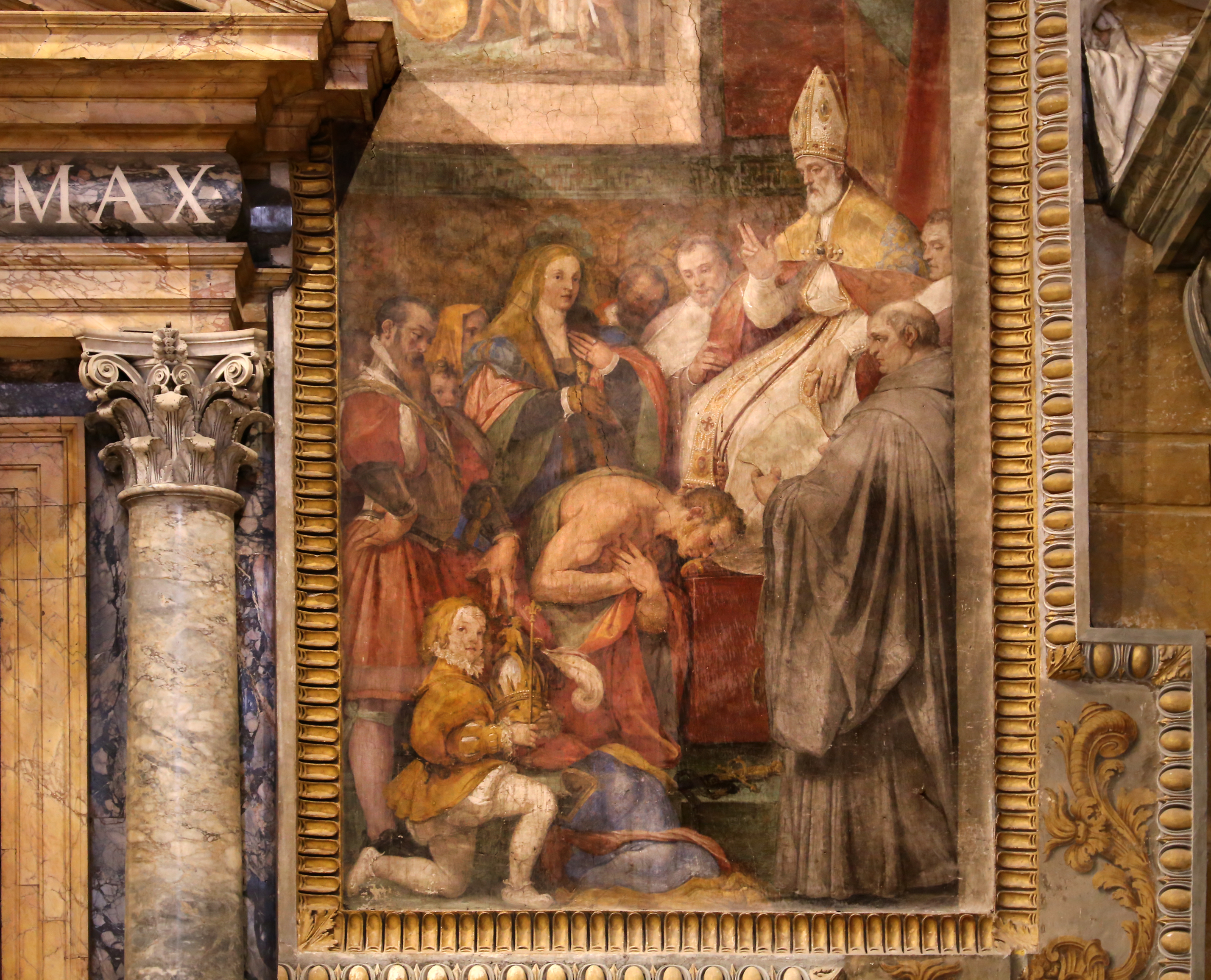 Sala Regia - Frescos by Taddeo and Federico Zuccari